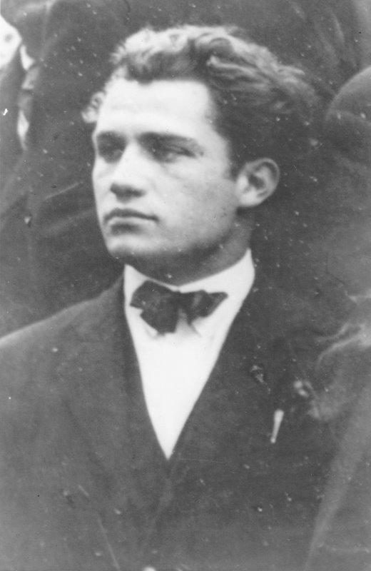 Photograph of the Italian painter Antonio Sicurezza (1905–1979), date or age unknown. Uploaded by Gbroggio